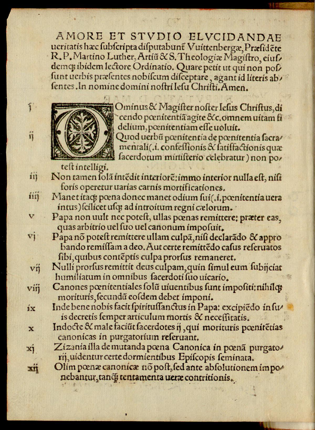 First page of Basel pamphlet edition of Ninety-five Theses